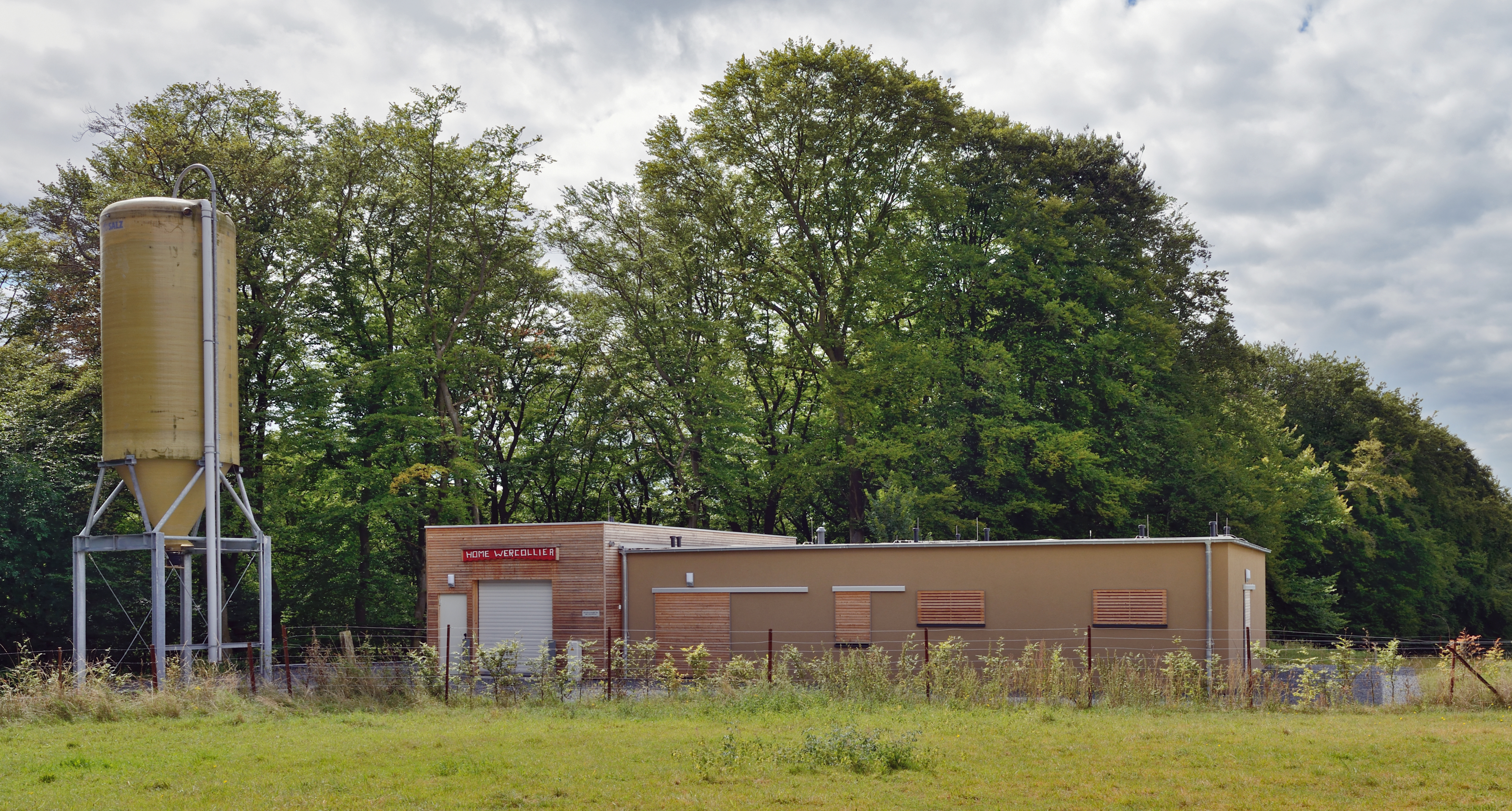 Luxembourg, Bridel: Home Lucien Wercollier (1908-2002) of the local scouting group Däreldéieren (Hedgehogs) (FNEL) inaugurated in Sept. 2011.